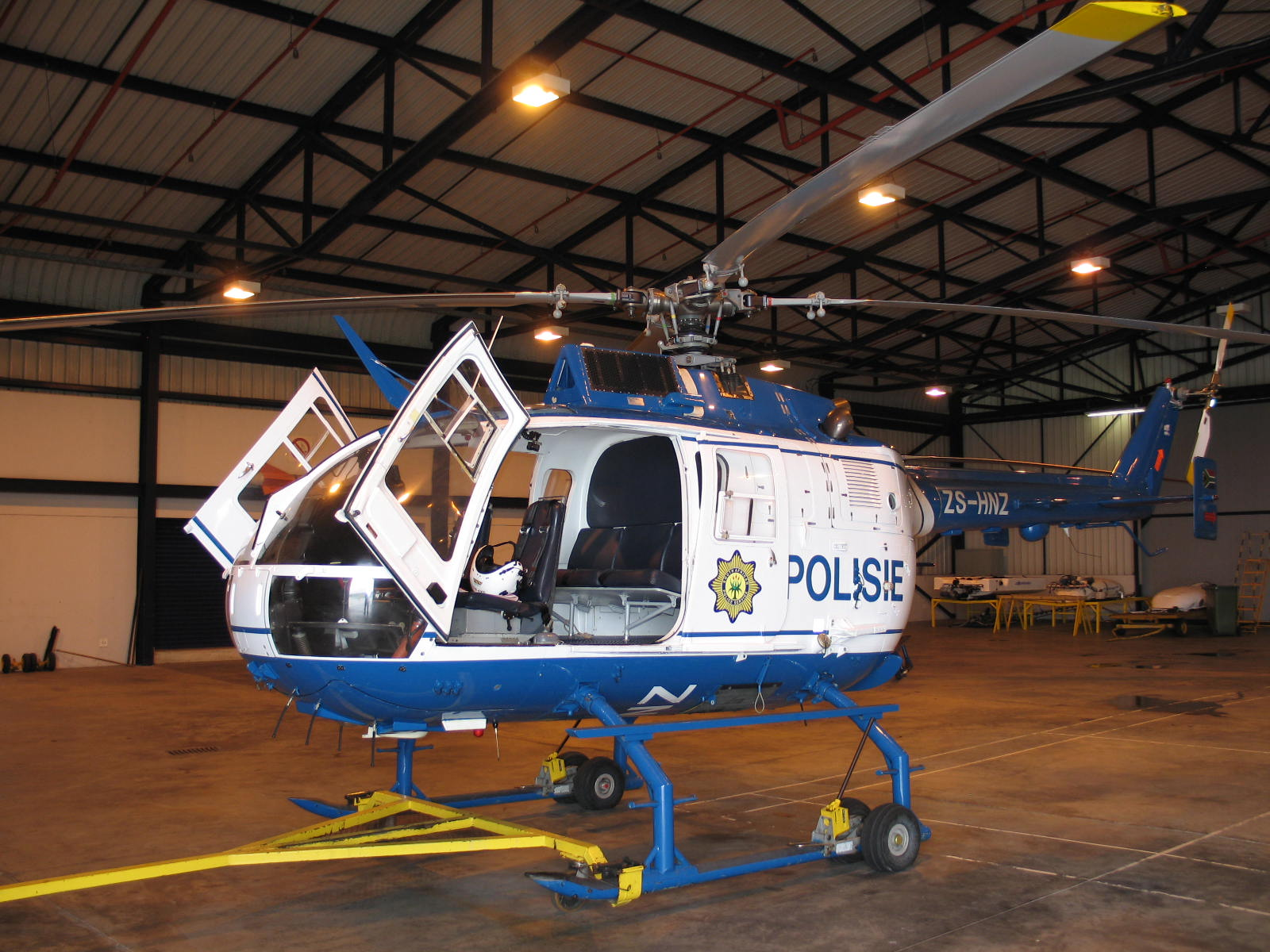 South African Police Services Bo 105.